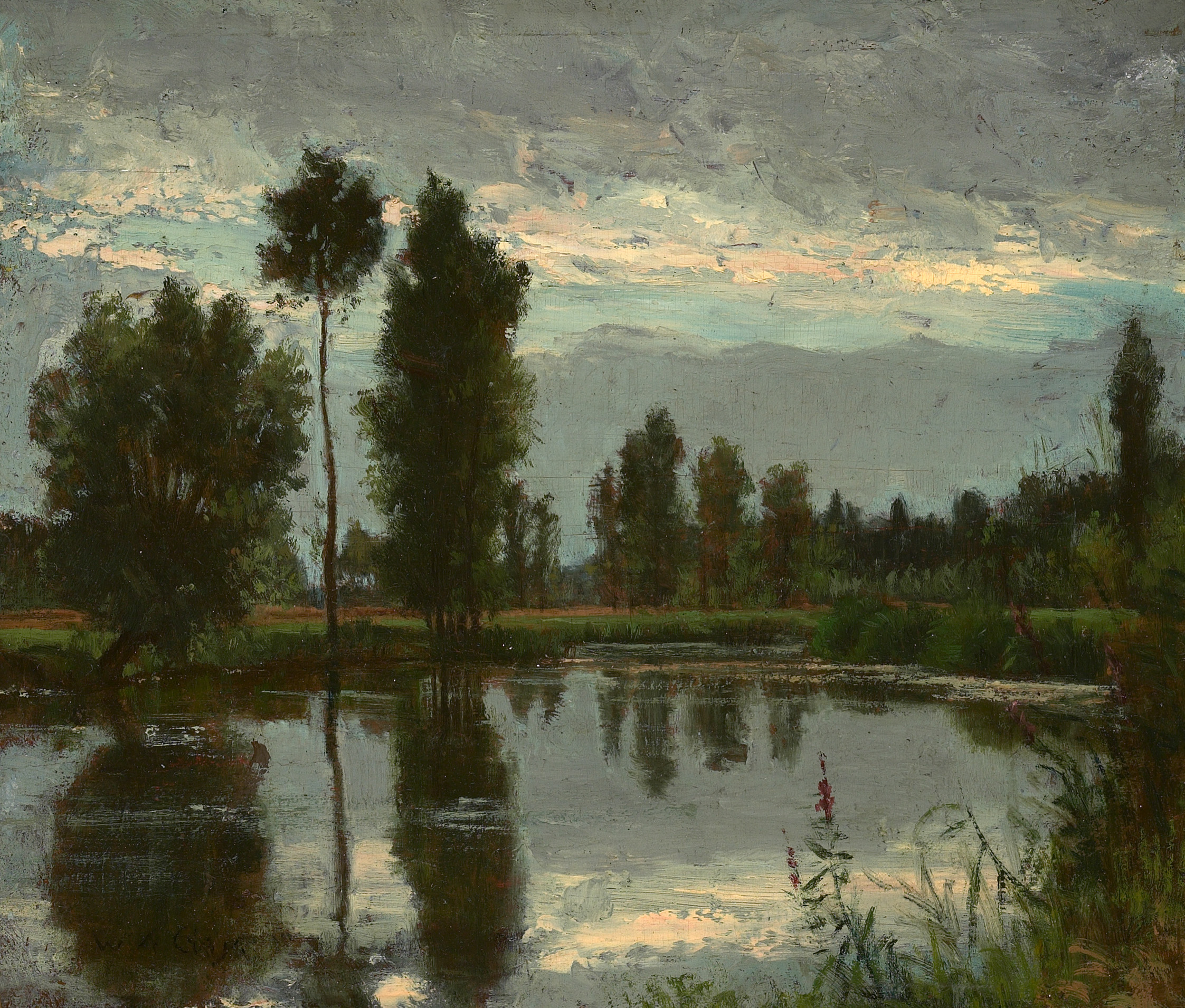 Grez-sur-Loing by Winckworth Allan Gay, 9.25 x 10.75 inches (23.5 x 27.3 cm), oil on panel